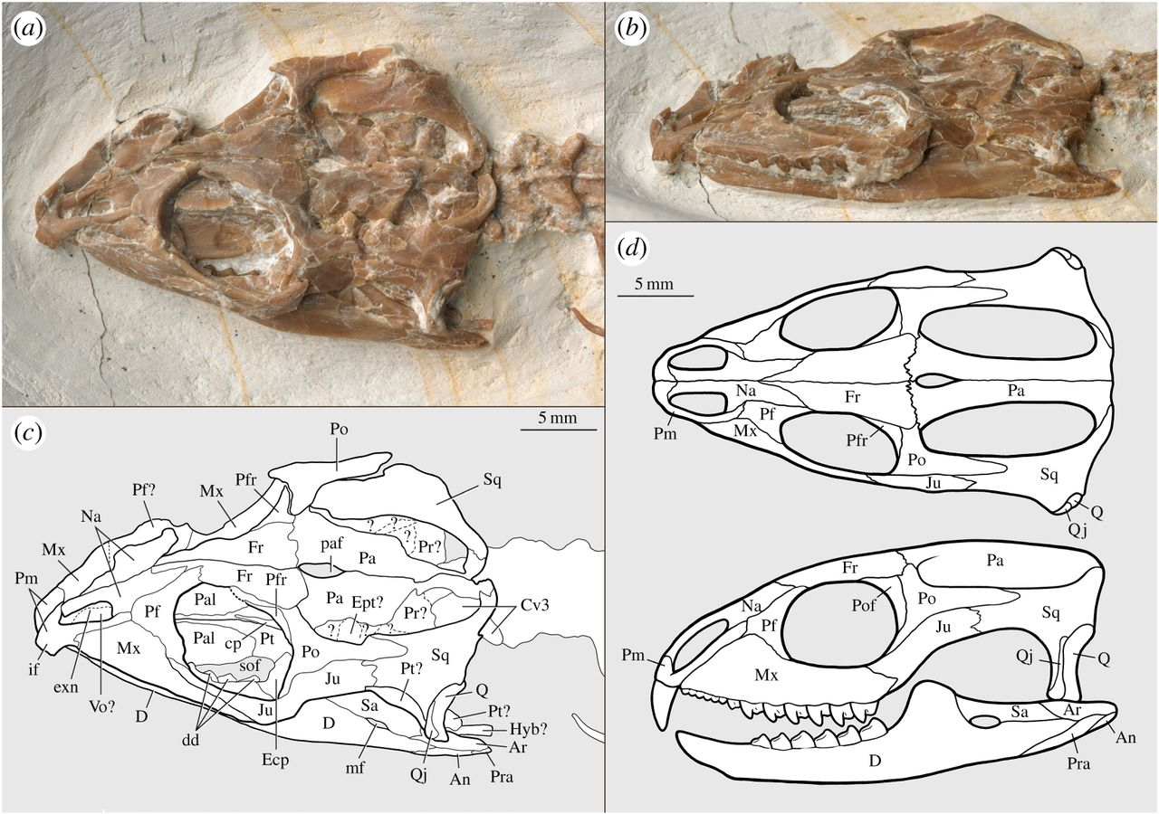 The skull of Vadasaurus herzogi (AMNH FARB 32768). Photographs in the dorsolateral (a) and lateral (b) views; labelled line drawing in the dorsolateral view (c); reconstructions of lateral and dorsal views (d). Anatomical abbreviations: An, angular; Ar, articular; cp, cultriform process; Cv, cervical vertebra; D, dentary; dd, dentary dentition; Ecp, ectopterygoid; Ept, epipterygoid; exn, external naris; Fr, frontal; Hy, hyobranchial element; if, incisiform fang; Ju, jugal; mf, mandibular foramen; Mx, maxilla; Na, nasal; Pa, parietal; Pal, palatine; paf, parietal foramen; Pf, prefrontal; Pm, premaxilla; Po, postorbital; Pof, postfrontal; Pr, prootic; Pra, prearticular; Pt, pterygoid; Q, quadrate; Qj, quadratojugal; Sa, surangular; sof, suborbital fenestra; Sq, squamosal; Vo, vomer.